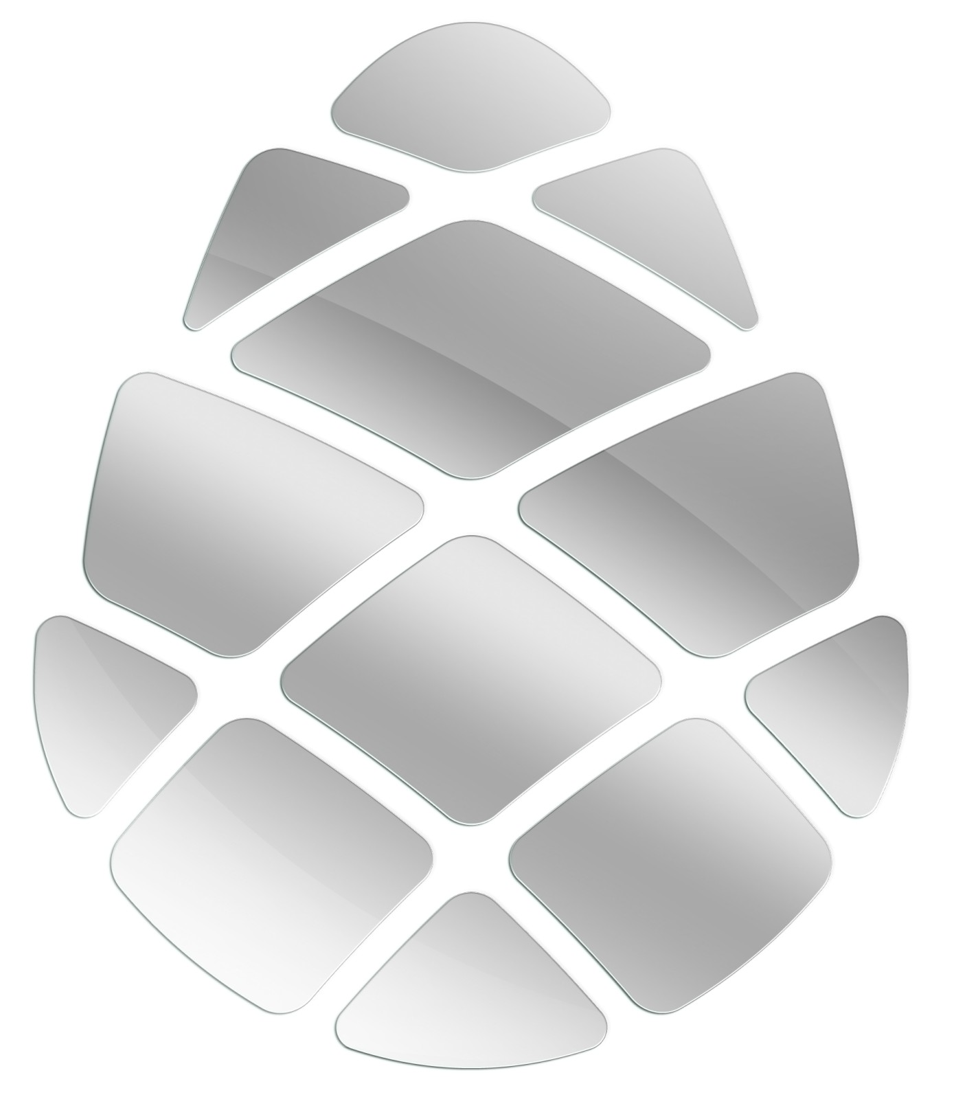 Girchi TV